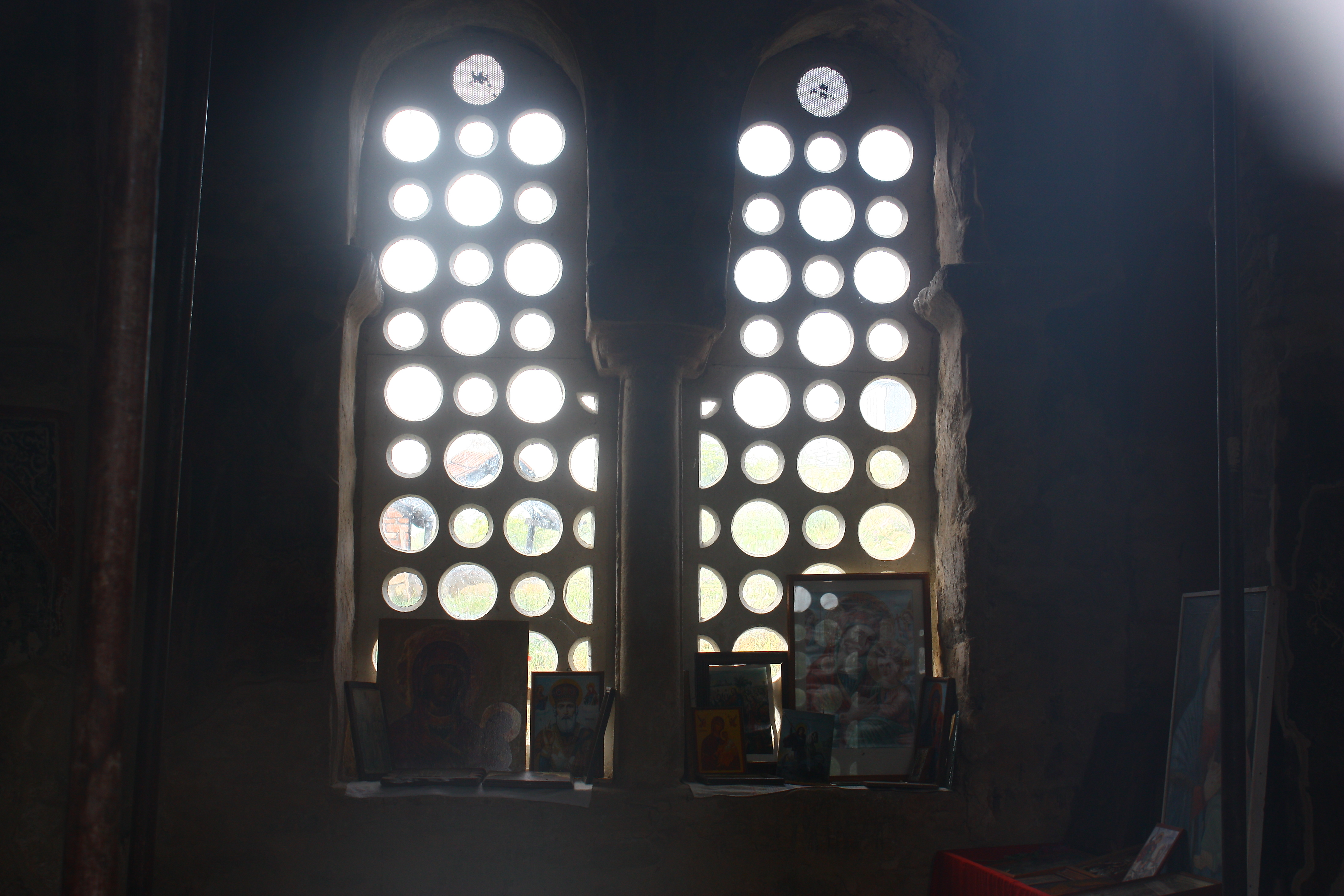 St. George's Church near village of Kozjak, Štip, Macedonia